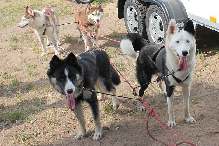 Kébi (Artic Travel Munha) & Eska (Altyn Tumar Ulina) To Not Fancy Kennel - France (E.GALLOU)